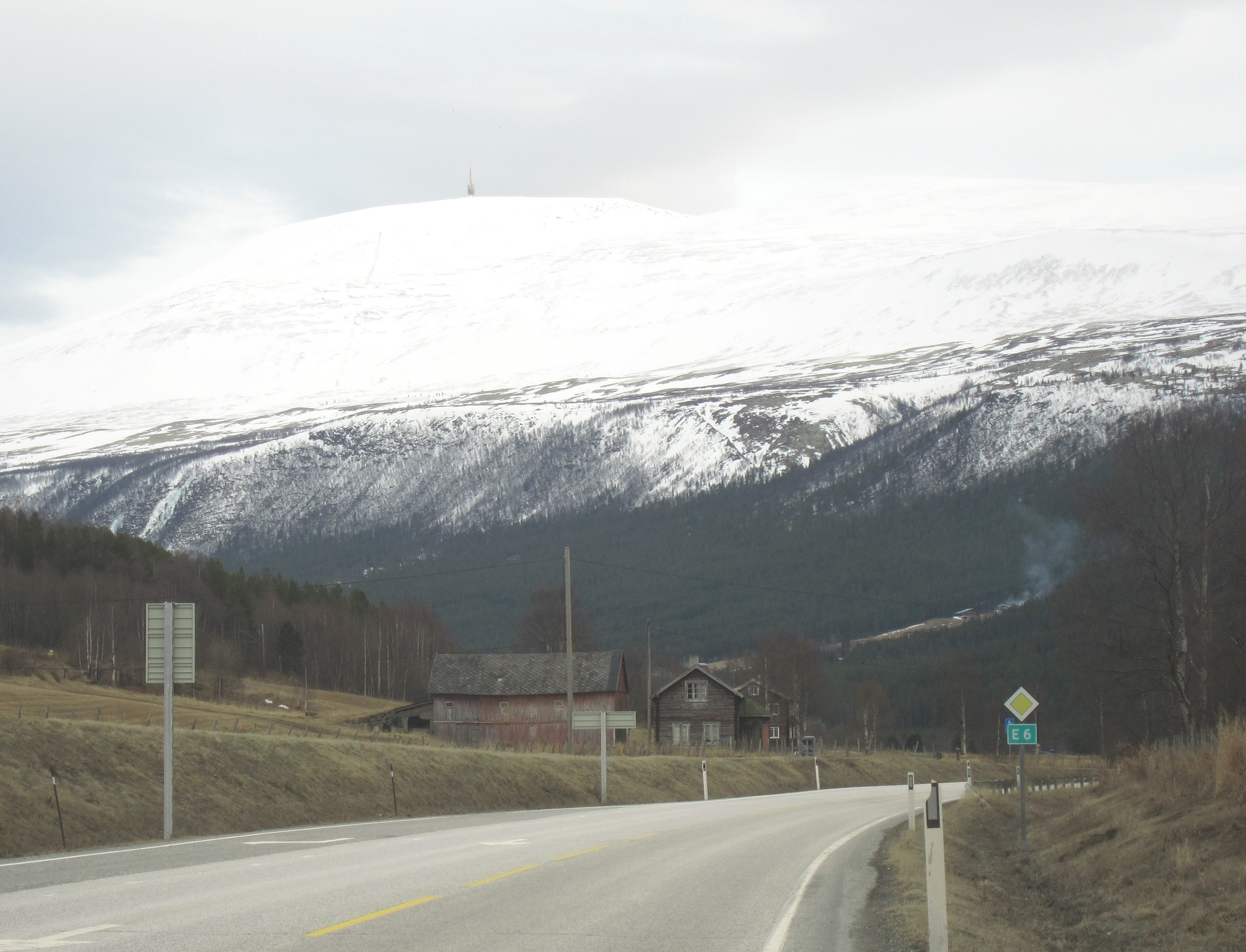 Road E6 in Dovre, Norway, Mt Blåhø summit